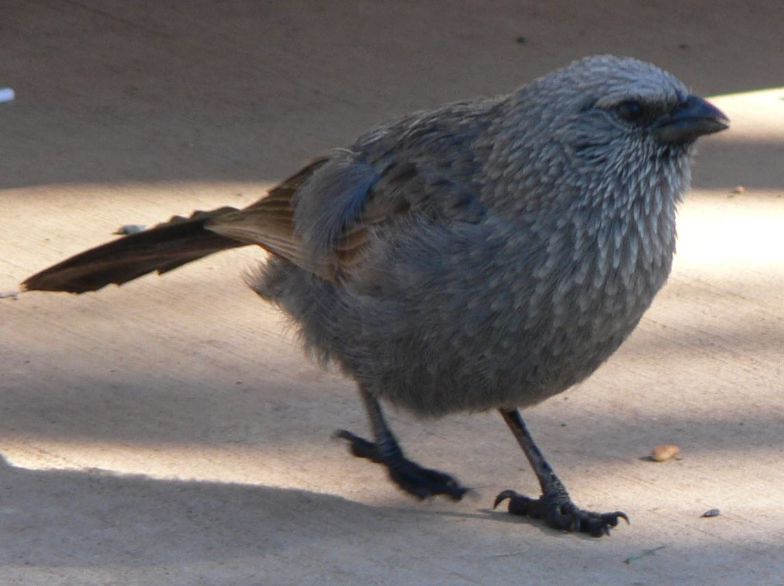 Apostlebird (Struthidea cinerea) seen on the grounds of Western Plains Zoo, Dubbo, NSW, Australia.